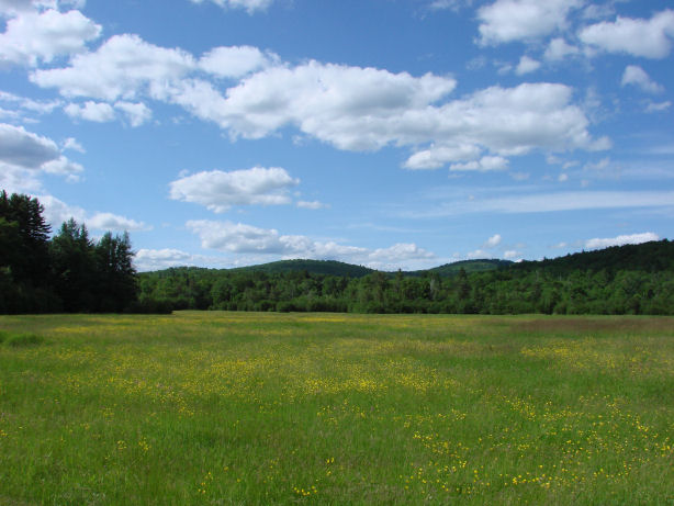 Lemon Stream Valley Solstice View